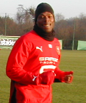 Sylvain Wiltord training with Stade Rennais F.C. on December 29, 2008.